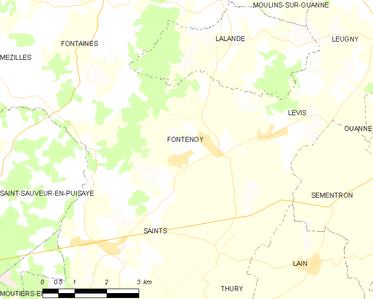 Map of French municipality Fontenoy